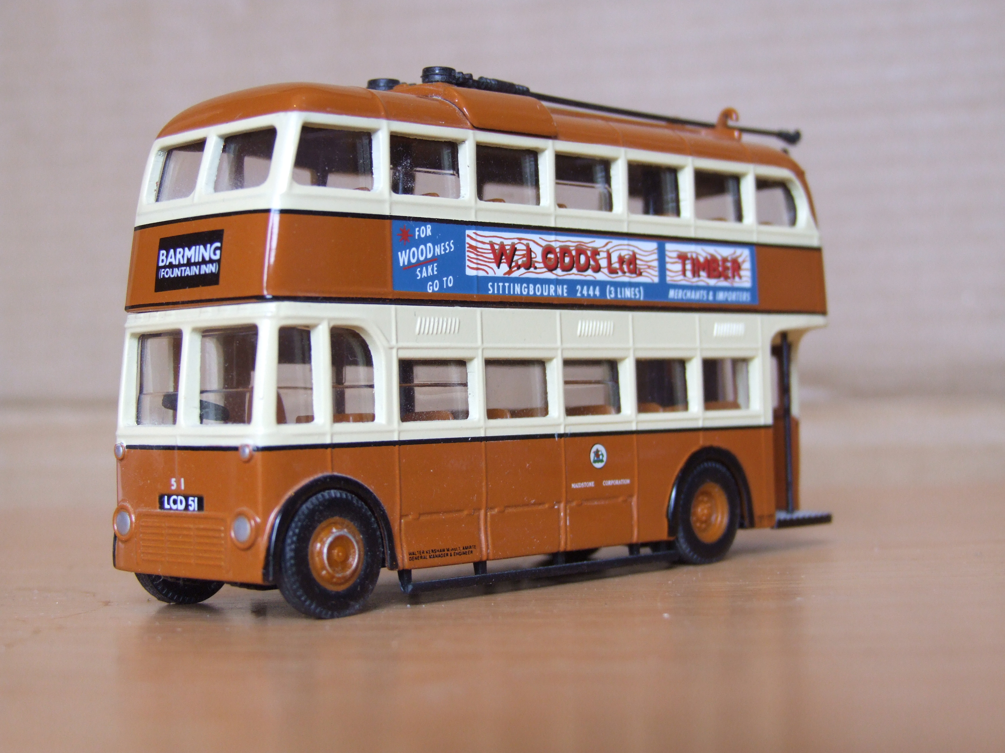 I used to ride on these buses when I was a boy. They were known as " granny killers" by virtue of their silent approach.